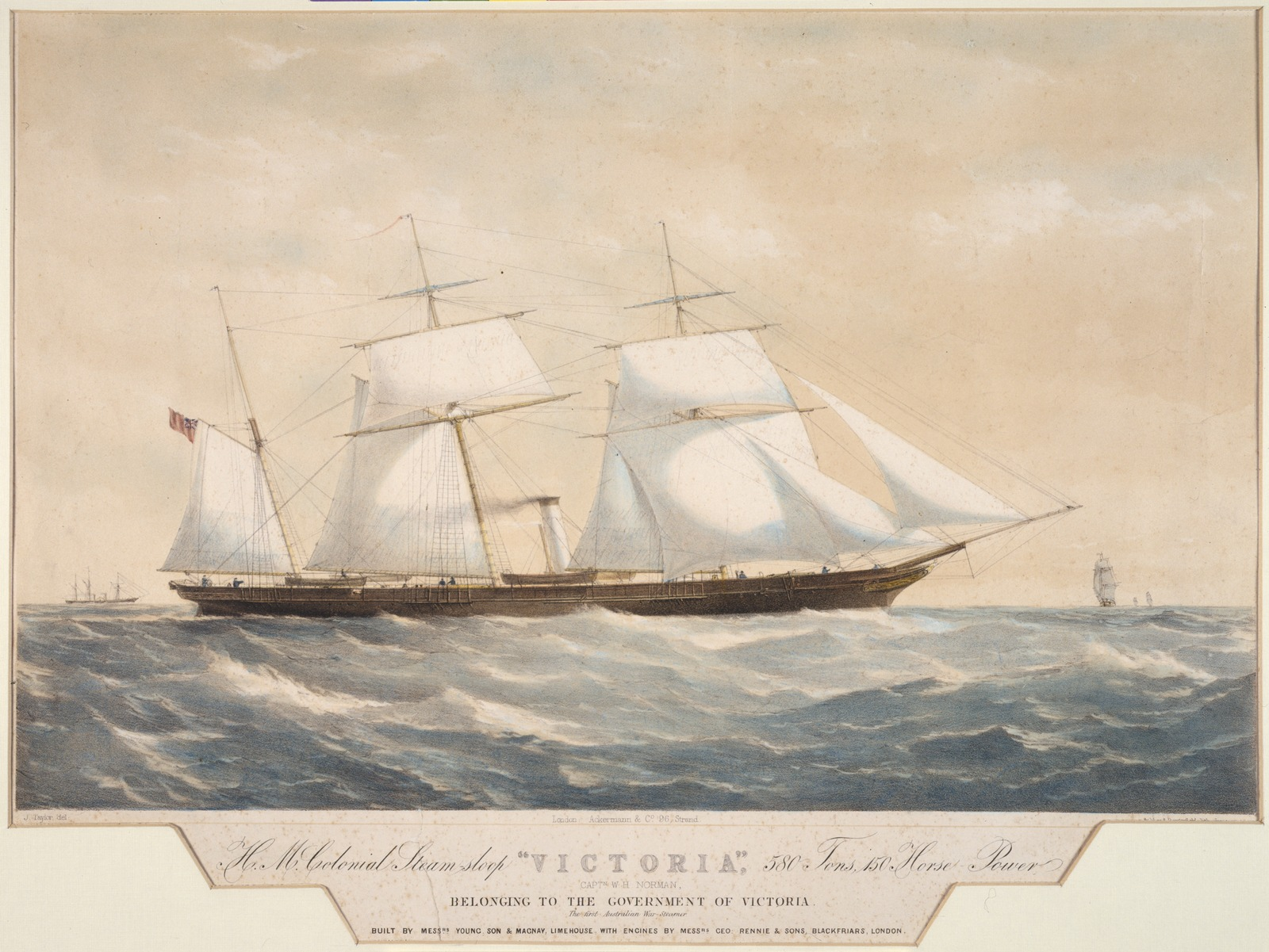 First warship owned by Victorian (Australia) colonial government (1856). Used as part of the search for the Burke and Wills expedition (1861-2)